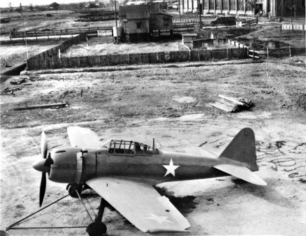 A captured Japanese Mitsubishi A6M3 model 32 fighter aircraft rebuilt by the Technical Air Intelligence Unit (TAIU) in Hangar 7 at Eagle Farm, Queensland (Australia), outside the unit's hangar. The allied code name for this version of the Zero was Hamp.